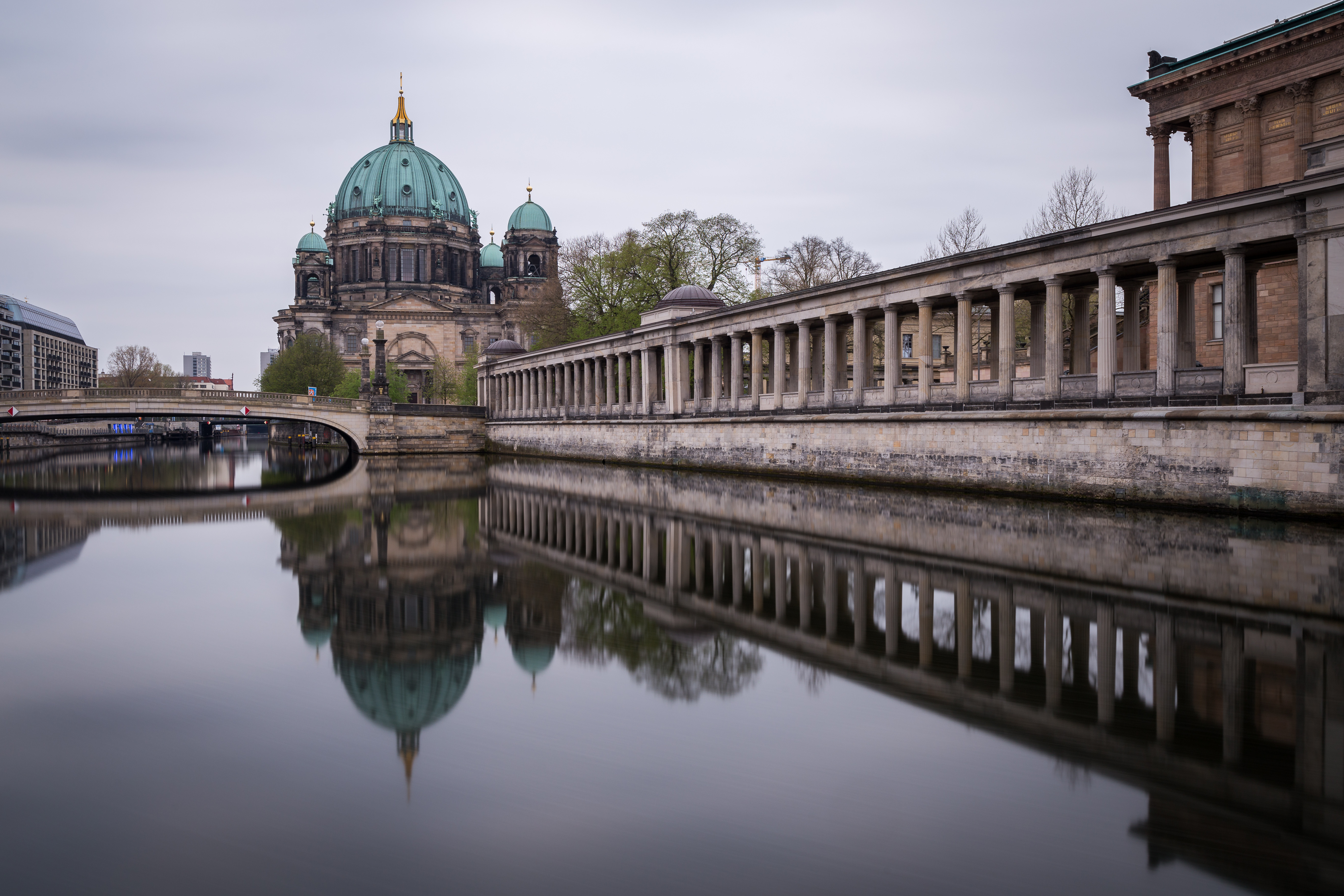 Berlin cathedral is reflecting in the river Spree. View from west towards east.